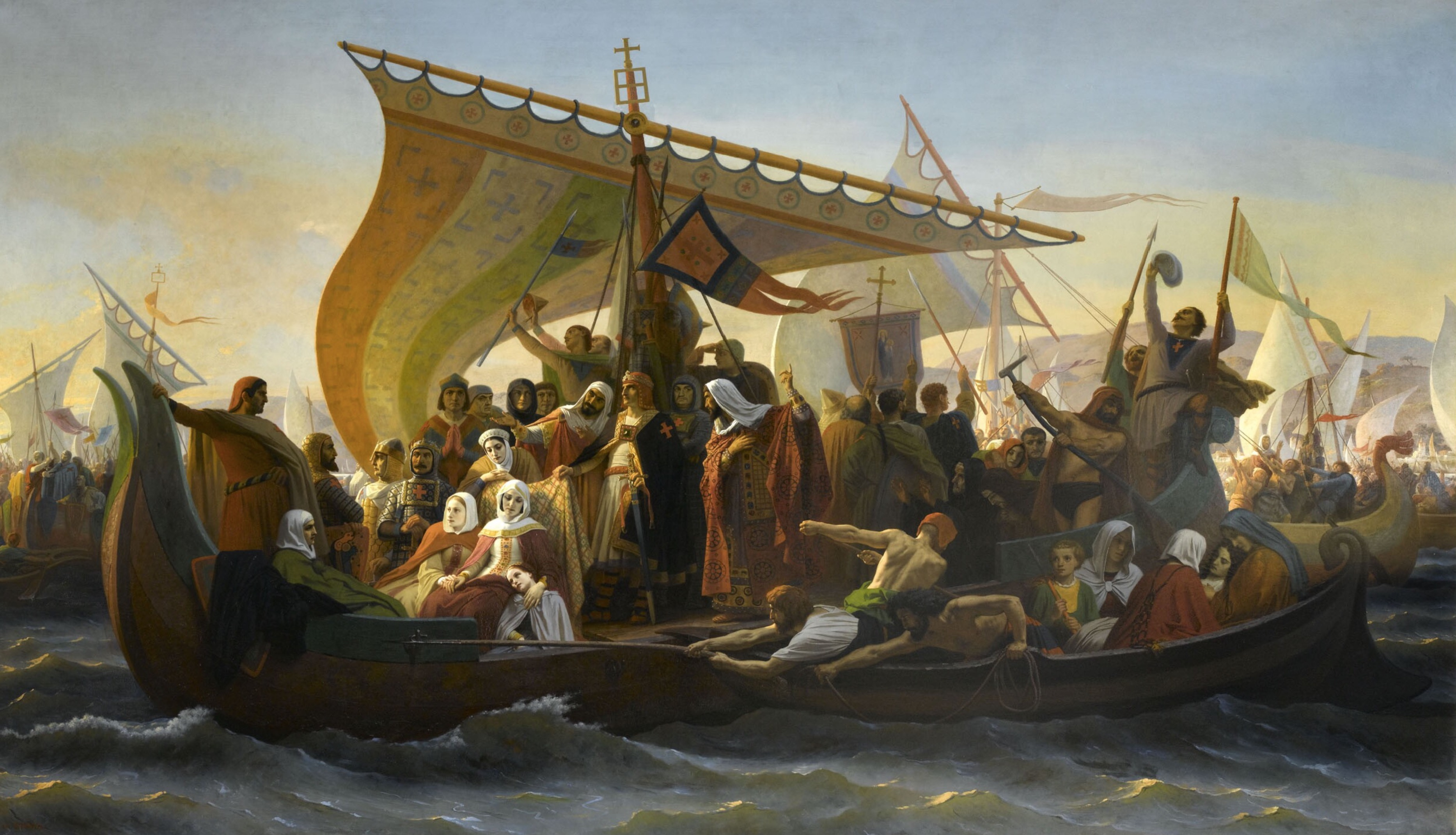 crusaders